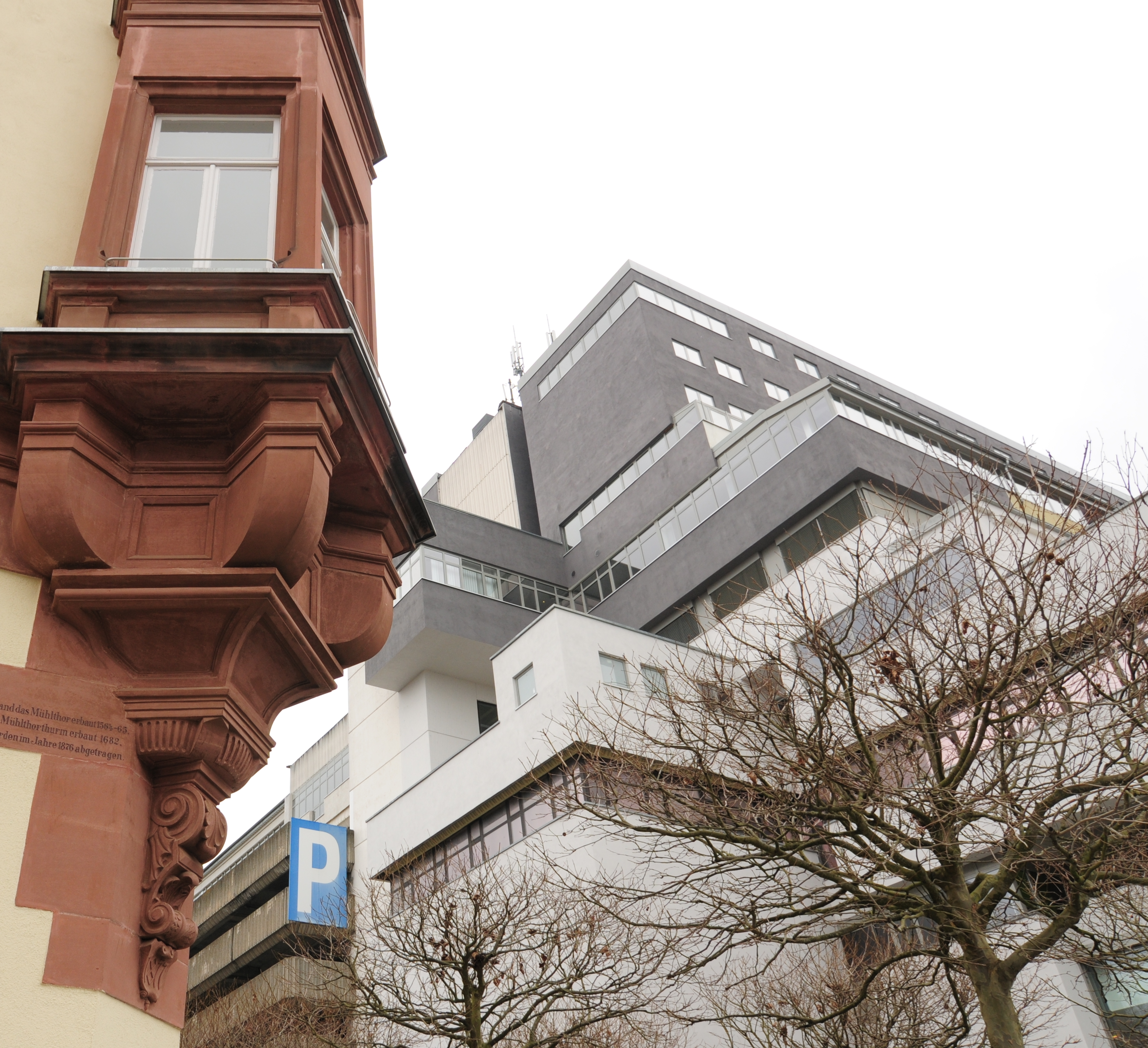 Schweinfurt (Bavaria), Department store „Rückert-Centrum“ (1973 opened, Brutalist architecture)